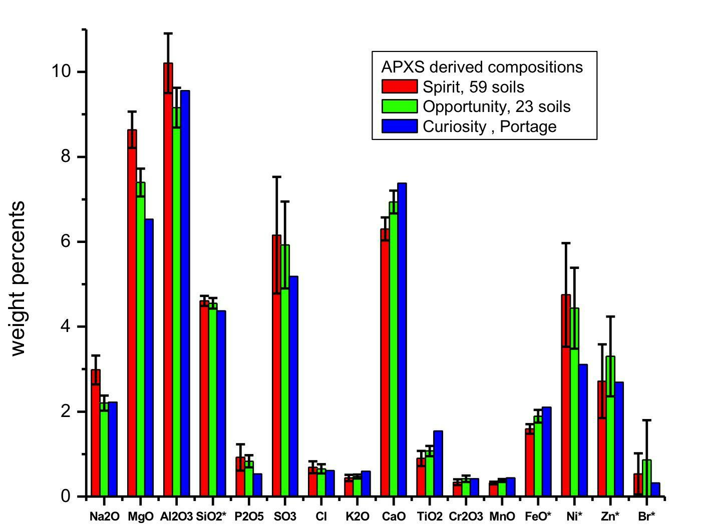 PIA16572: Inspecting Soils Across Mars Target Name: Mars Mission: Mars Science Laboratory (MSL) Spacecraft: Curiosity Instrument: Alpha Particle X-ray Spectrometer (MSL) Product Size: 1600 x 1200 pixels (width x height) Produced By: JPL Full-Res TIFF: PIA16572.tif (5.762 MB) Full-Res JPEG: PIA16572.jpg (141.9 kB) Click on the image above to download a moderately sized image in JPEG format (possibly reduced in size from original) Original Caption Released with Image: This graph compares the elemental composition of typical soils at three landing regions on Mars: Gusev Crater, where NASA's Mars Exploration Rover Spirit traveled; Meridiani Planum, where Mars Exploration Rover Opportunity still roams; and now Gale Crater, where NASA's newest Curiosity rover is currently investigating. The data from the Mars Exploration Rovers are from several batches of soil, while the Curiosity data are from soil taken inside a wheel scuff mark called "Portage" and examined with its Alpha Particle X-ray Spectrometer (APXS). These early results indicate that the samples investigated by Curiosity are very similar to those at previous landing sites. Error bars indicate the variations for the given number of soils measured for the Mars Exploration Rovers along the traverse. Note that concentrations of silicon dioxide and iron oxide were divided by 10, and nickel, zinc and bromine levels were multiplied by 100. JPL manages the Mars Science Laboratory/Curiosity for NASA's Science Mission Directorate in Washington. The rover was designed, developed and assembled at JPL, a division of the California Institute of Technology in Pasadena. For more about NASA's Curiosity mission, visit: and Image Credit: NASA/JPL-Caltech/University of Guelph Image Addition Date: 2012-12-03